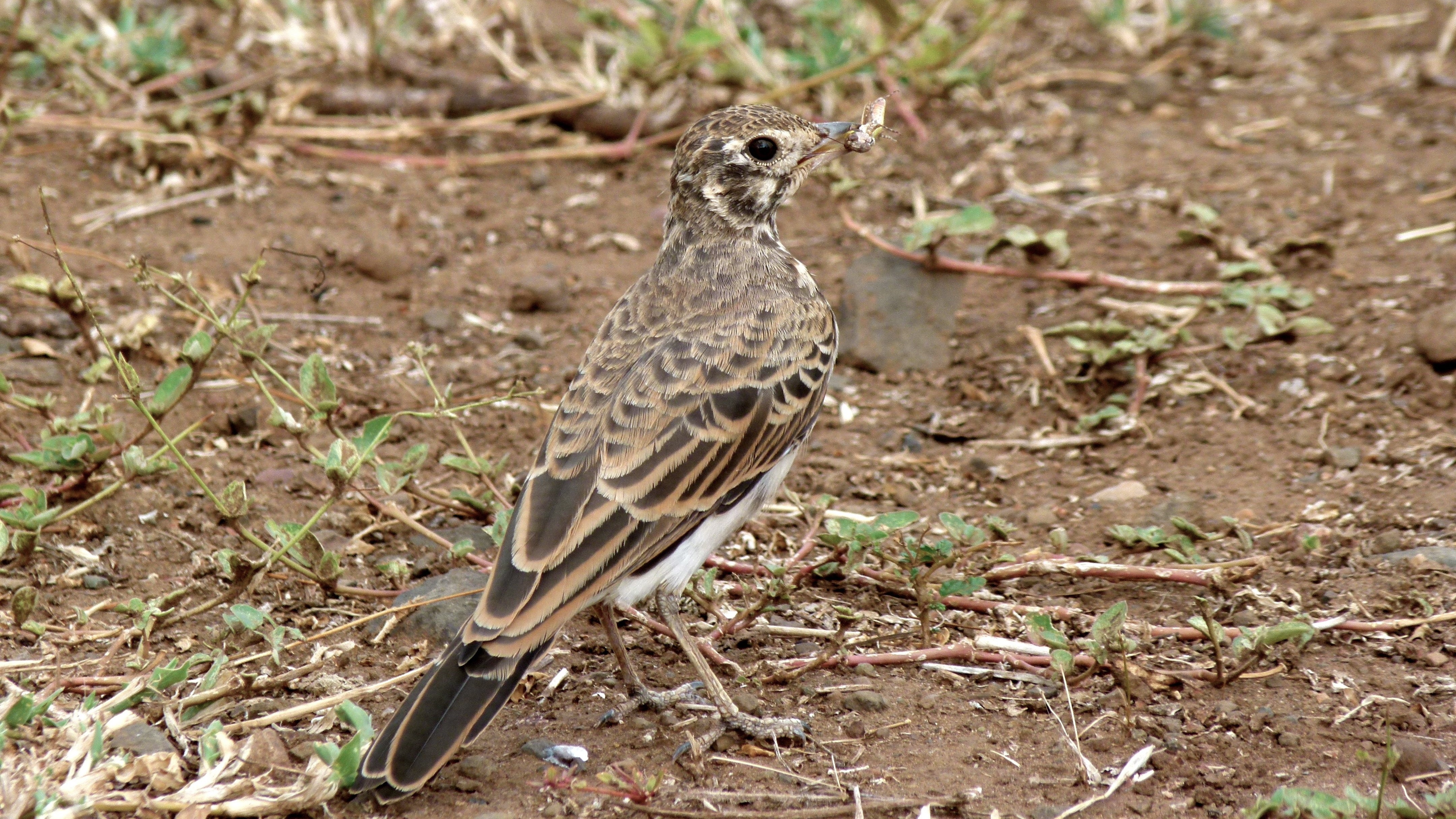 S47 near Mingerhout Point of View North of Letaba, Kruger NP, SOUTH AFRICA